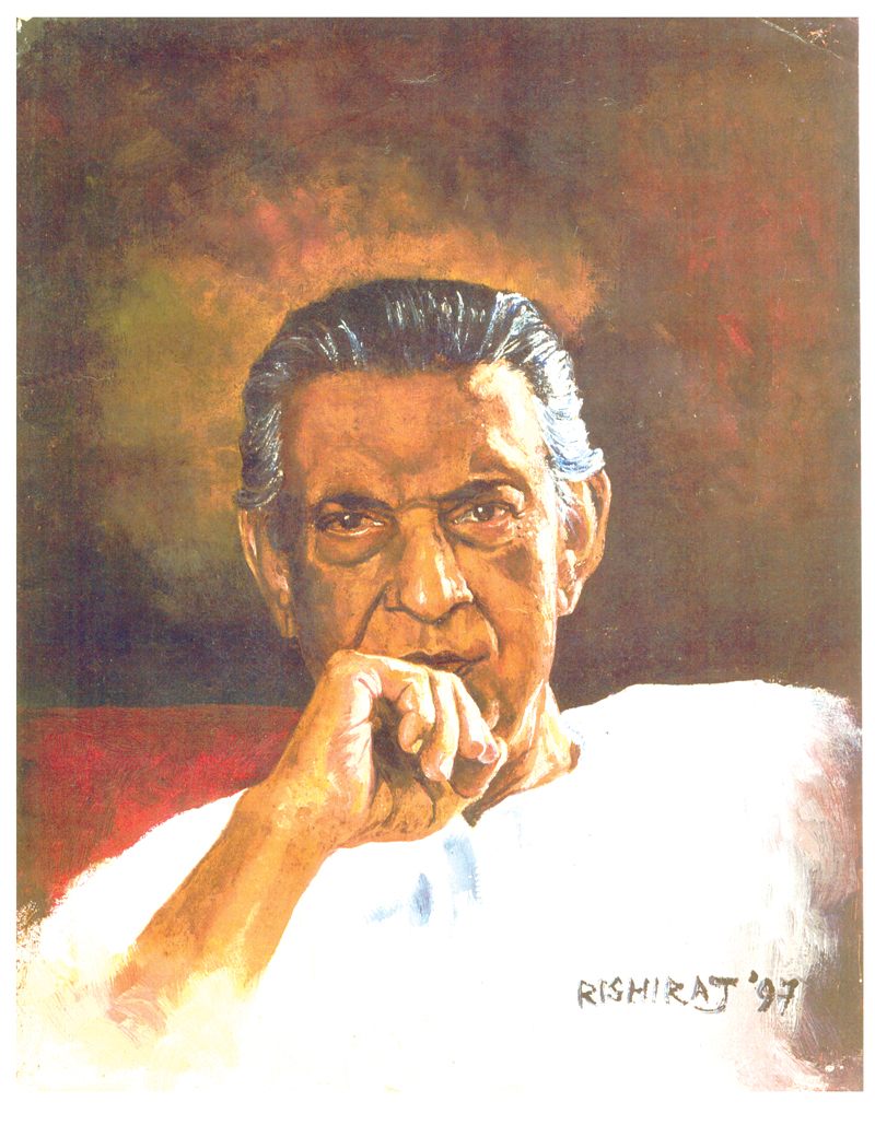 Potrait of Satyajit Ray, painted by Rishiraj Sahoo in 1997